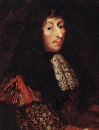 Louis II de Bourbon, Prince de Condé (1621-1686), dit le Grand Condé